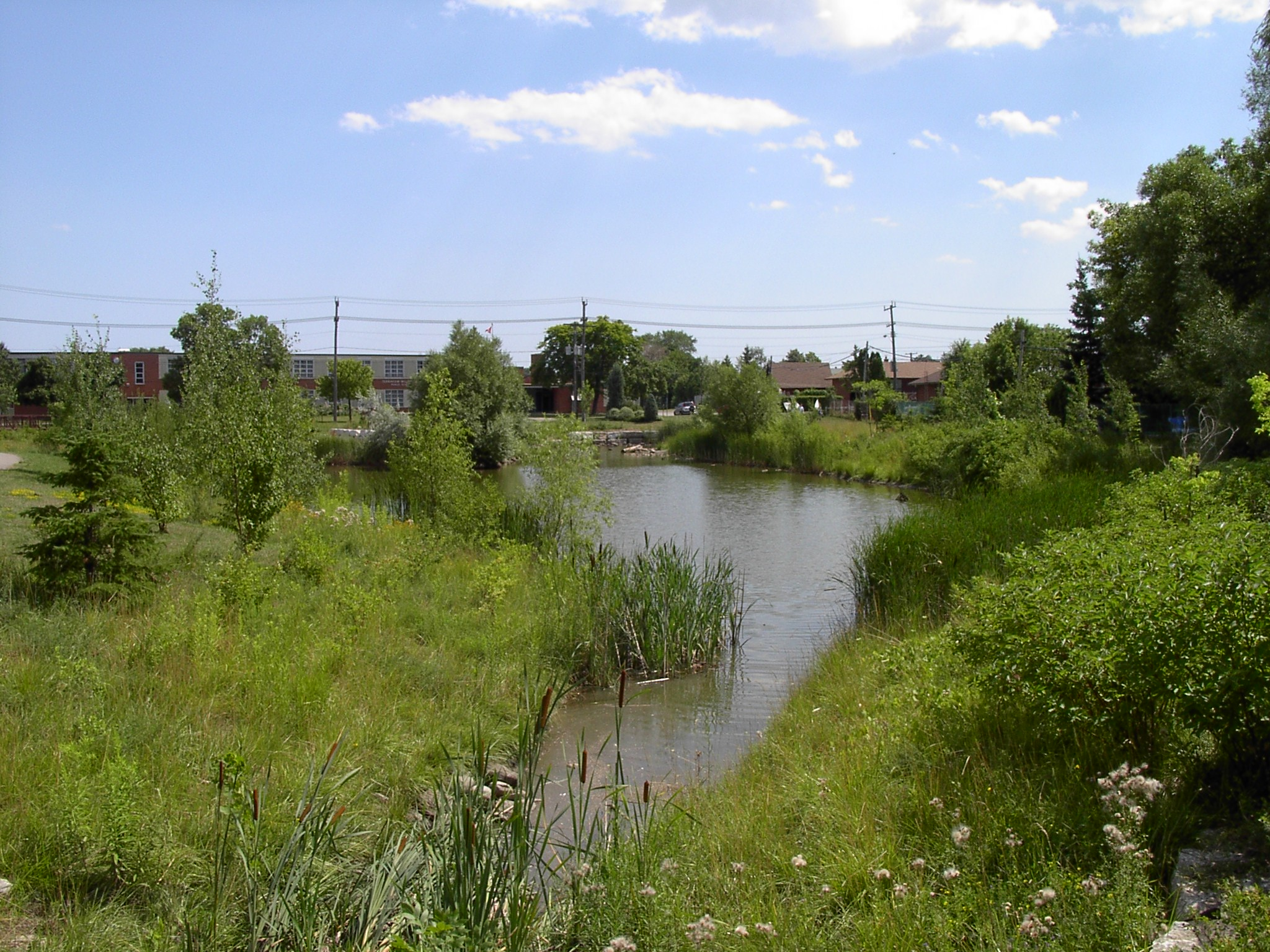 Taylor-Massey Creek flows through Terraview Willowfield Park. This is a view of the south pond. The Terraview Willowfield Public School can be seen in the background to the left.